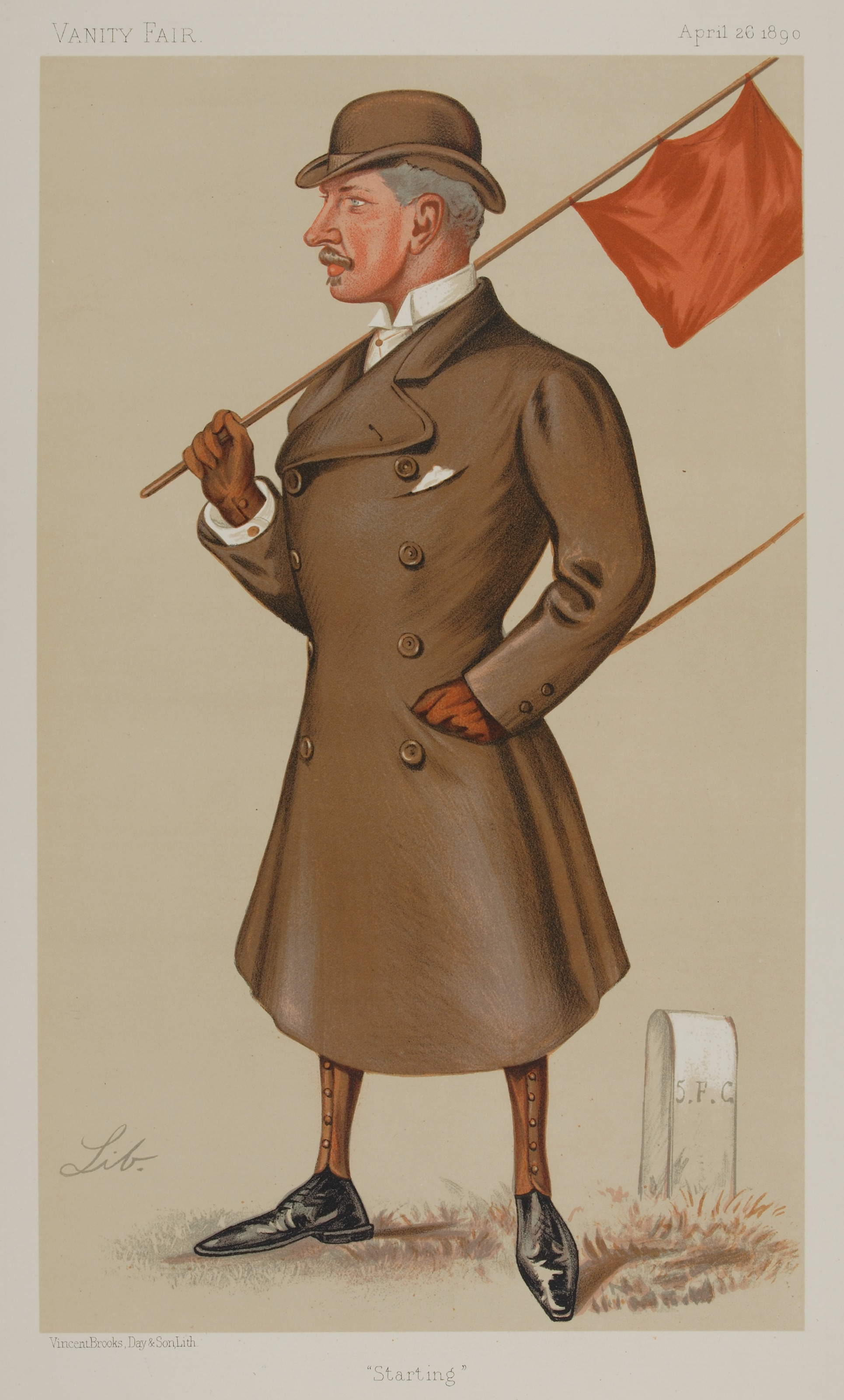 Men of the Day No. 467: Caricature of Lord Marcus Beresford (1848-1922) : "Starting". Lithograph April 26, 1890 15"x10.5", Vanity Fair portrait.